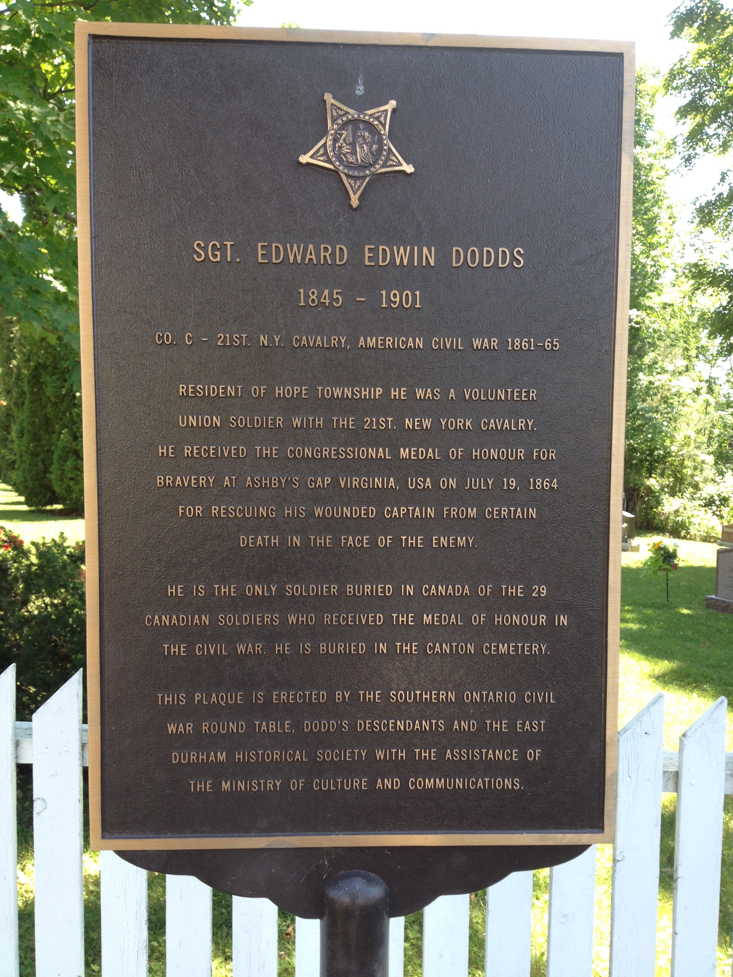 Canton, Ontario graveyard - Plaque to Sgt. Edward Edwin Dodds